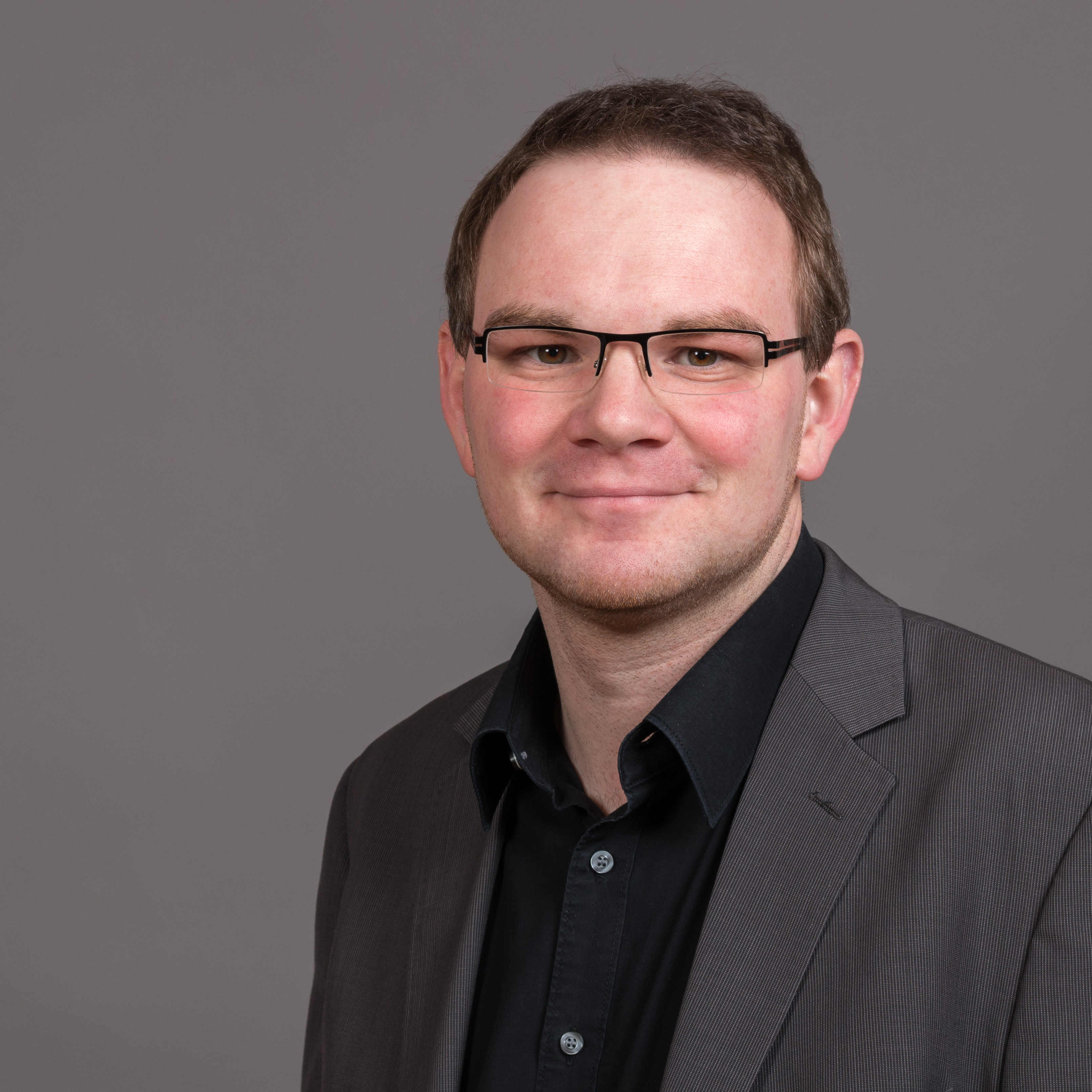 Martin Haller, SPD, member of the Landtag of Rhineland-Palatinate